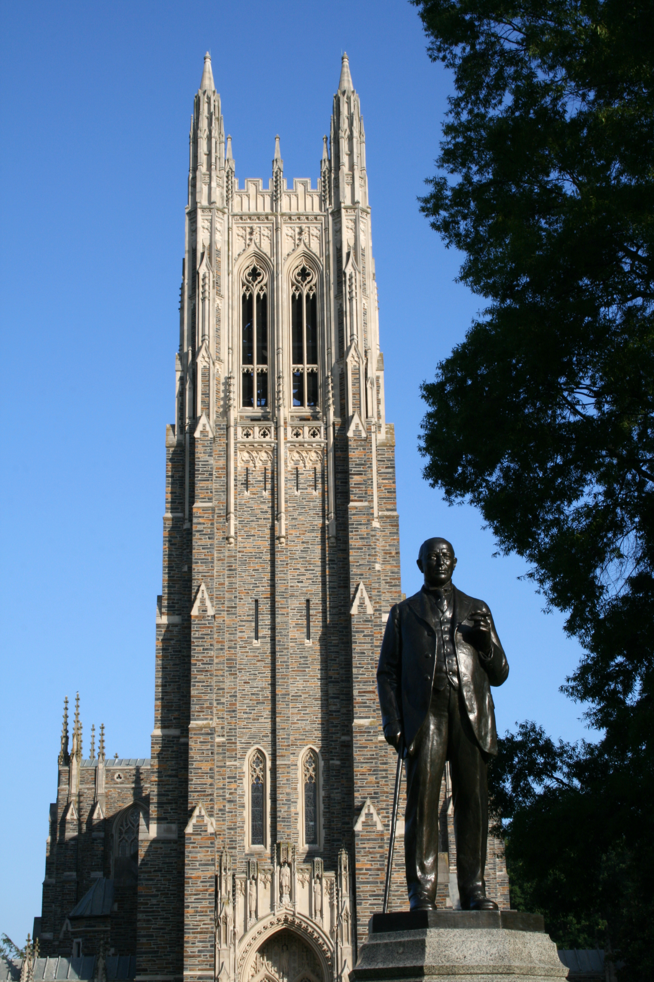 The statue of James Buchanan Duke in front of the Duke Chapel at Duke University in Durham, North Carolina.